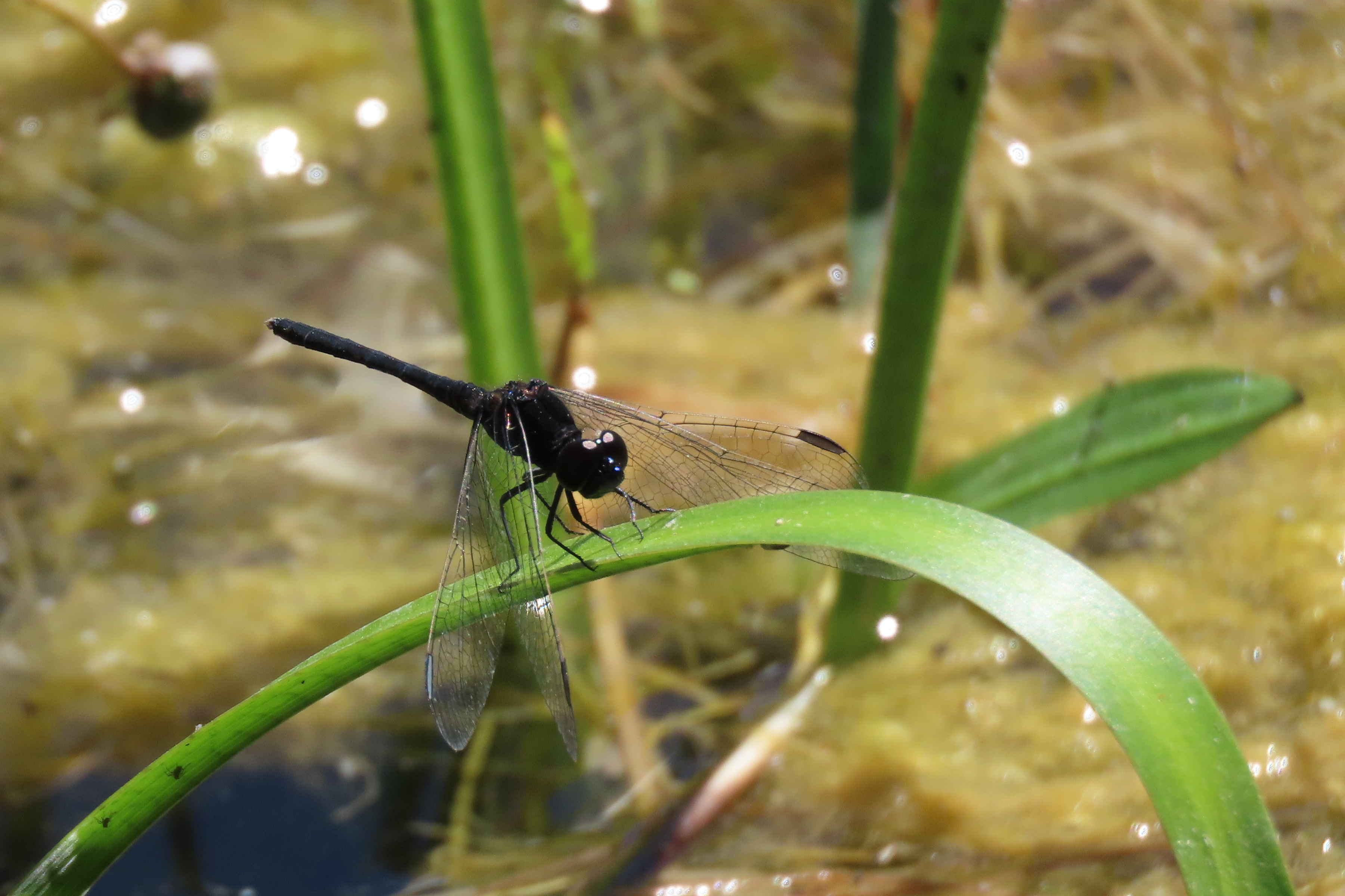 Black Percher Diplacodes lefebvrii male